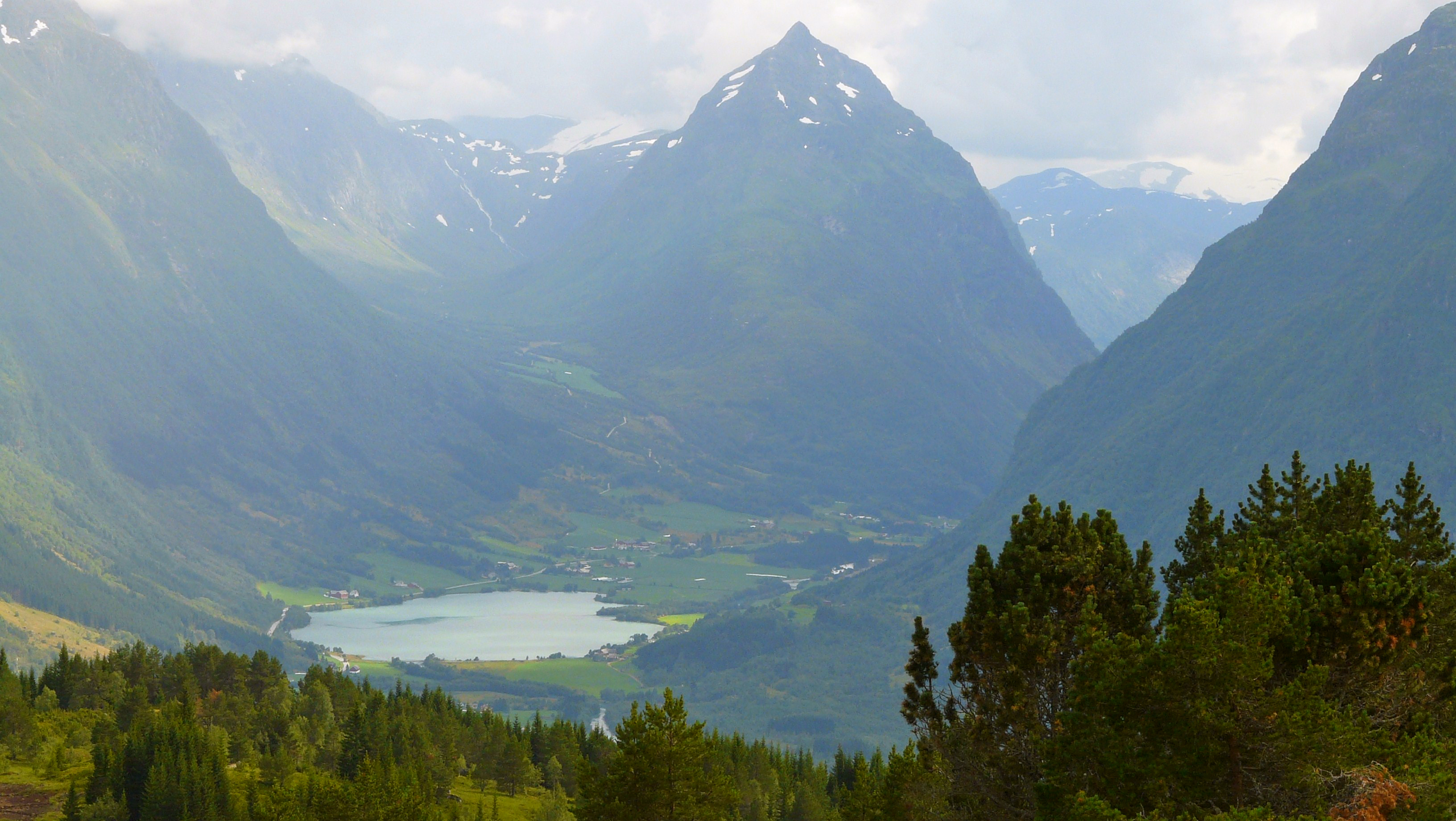 The valley of Votedalen as seen from a hill on Utvikfjellet in 2008 August. Utvikfjellet is located to the north from the village of Byrkjelo and the Riksvei 60 road is crossing the mountain near by (a litte to the east) the place this picture has been taken. The mountain in the center of the picture is Eggjenibba (1,338 m).